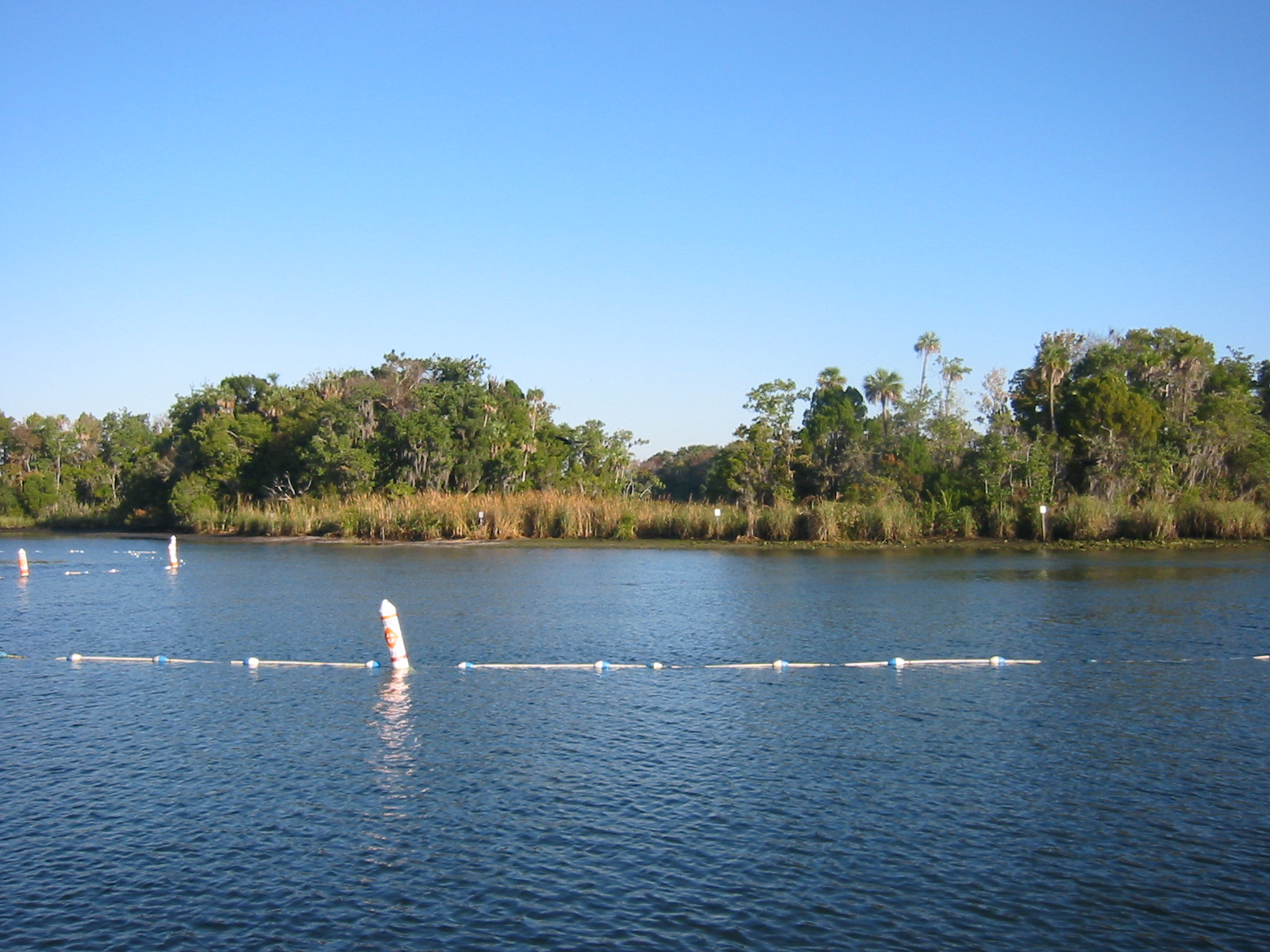 Crystal River National Wildlife Refuge in Crystal River, Florida. The area marked off by buoys is a sanctuary for manatees. Boaters and snorkelers may not cross into that area.